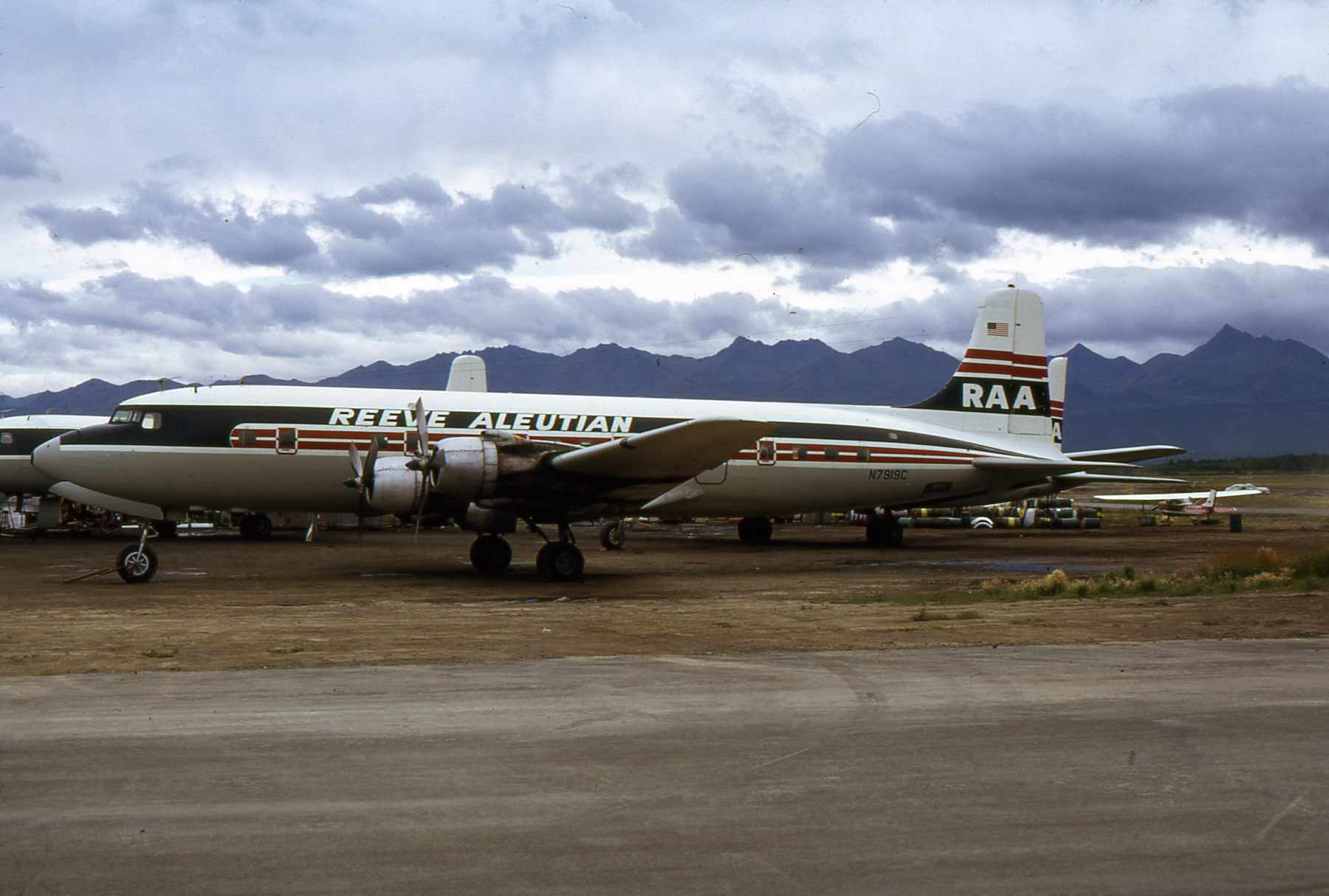 Reeve Aleutian Airways Douglas DC-6B N7919C c/n 43554/247 delivered to KLM as “Oliver van Noort” on June 23, 1952. Sold to 20th Century on July 30, 1959 as N7919C. Sold to US Overseas on February 15, 1962. Sold to Stanley. D. Weiss on November 9, 1964. Sold to Reeve Aleutian Airways on June 30, 1965 and entered in service on October 3, 1965.